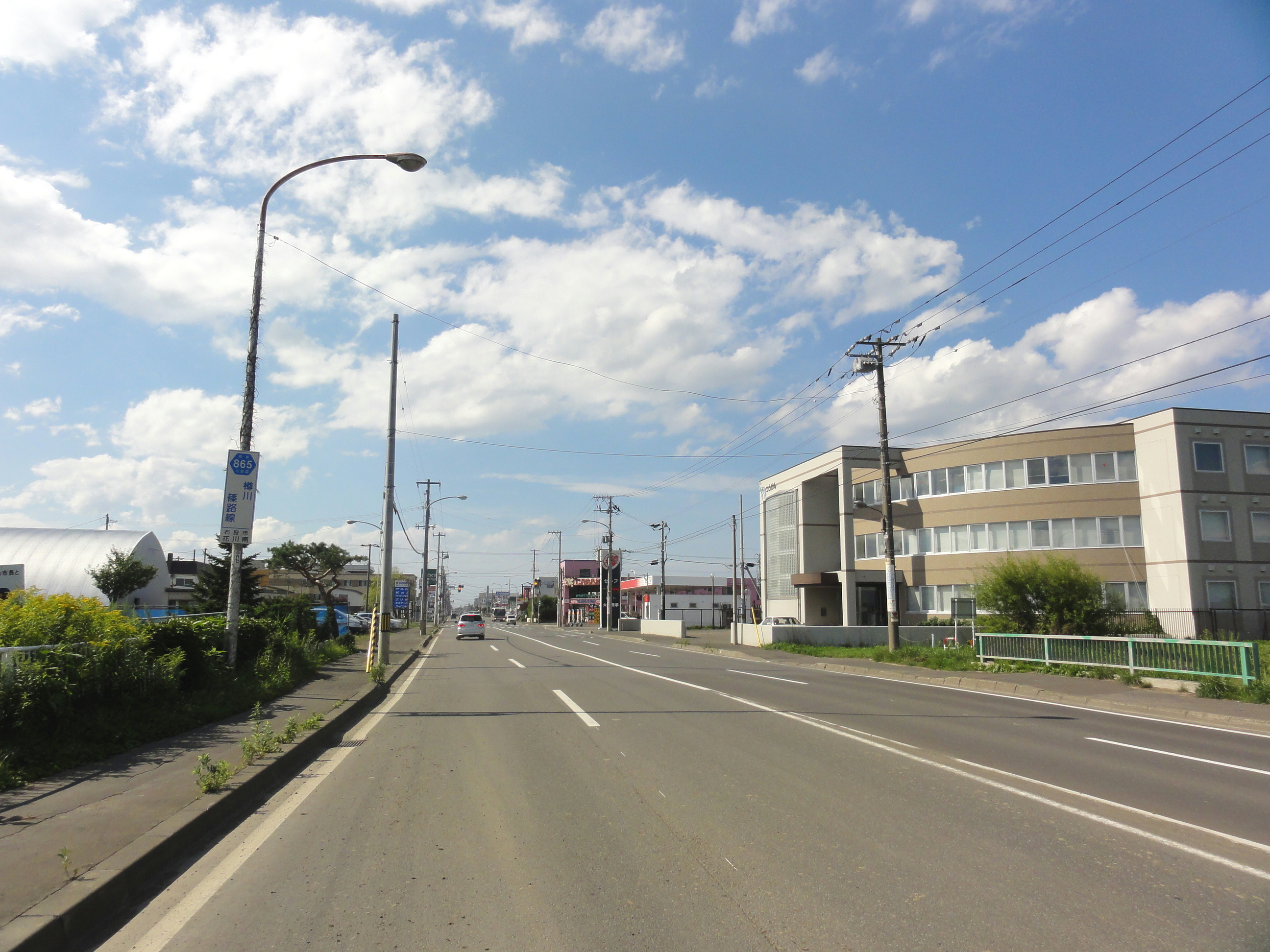 Hokkaido Pref Route 865 (Ishikari, Hokkaidō)